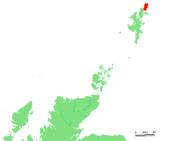 VK Unst.PNG (Orkney and Shetland islands, UK)